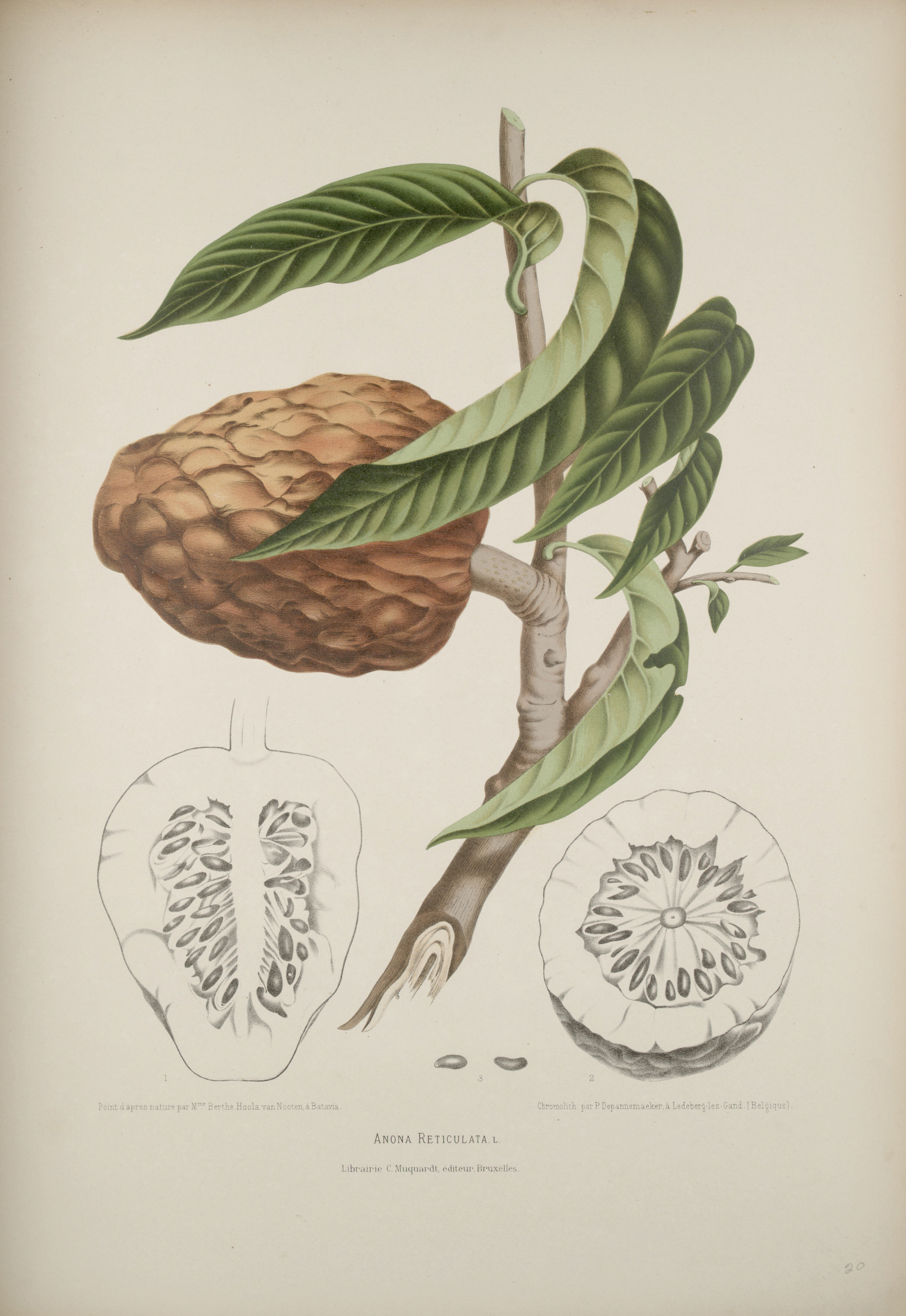 Annona reticulata L. from "Fleurs, Fruits et Feuillages Choisis de l'Ile de Java" [Selected Flowers, Fruit and Foliage from the Island of Java]